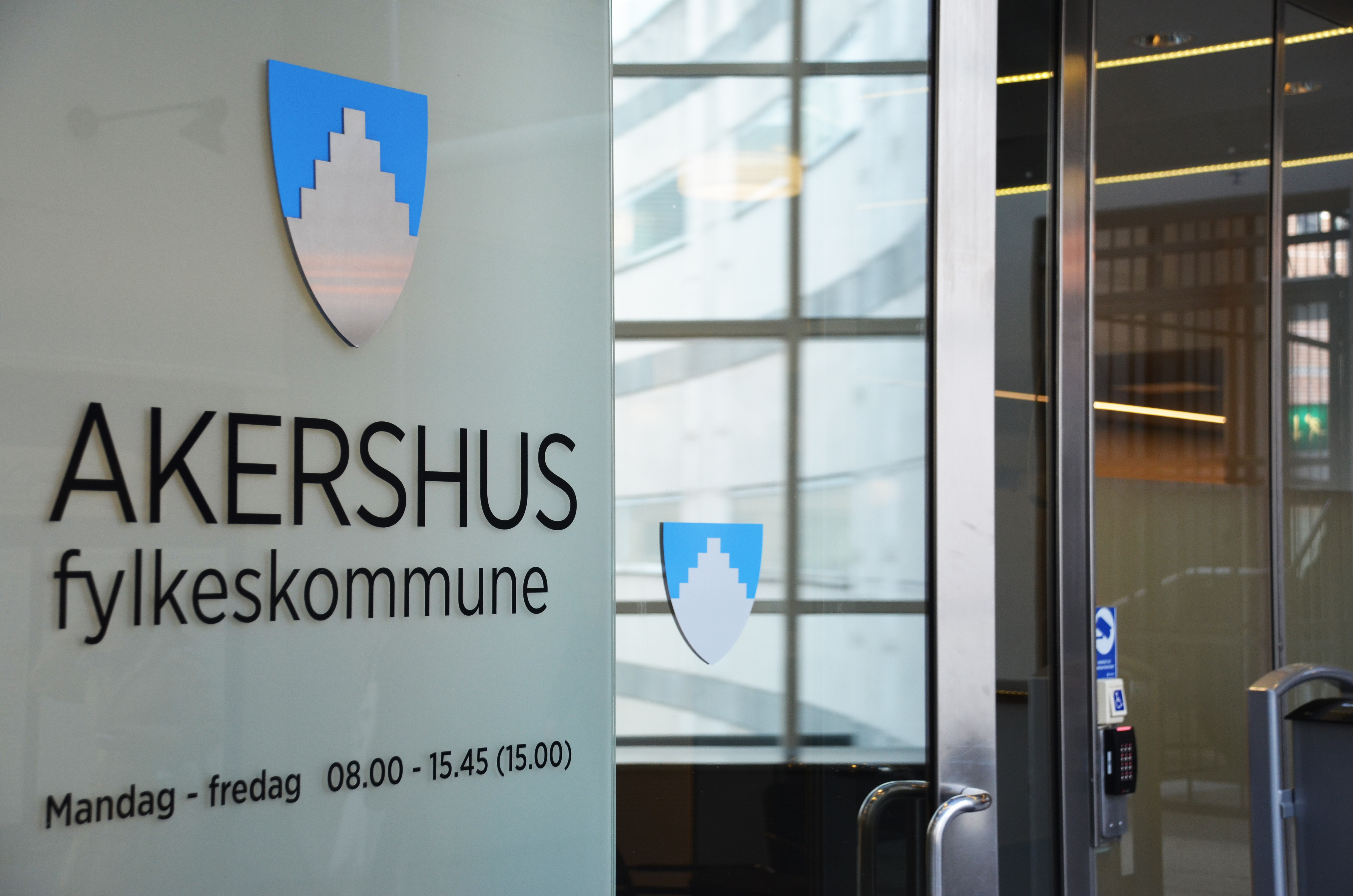 Office of the Norwegian Akershus County municipality.